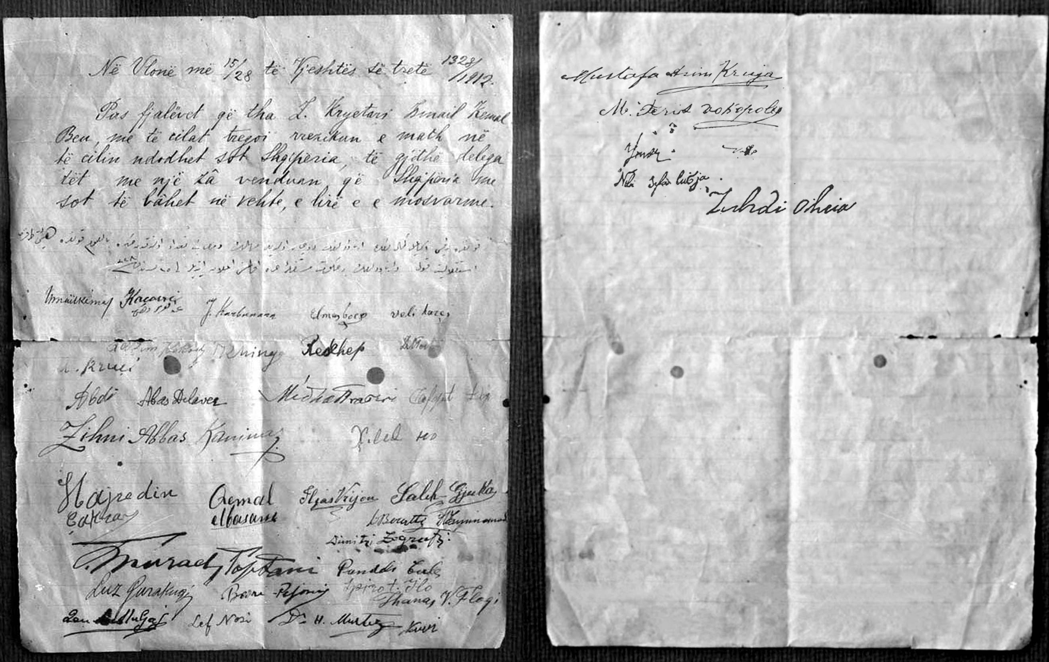 Photograph of the original Act of the Albanian Declaration of Independence. The original document shown in this photograph was later in the posession of Lef Nosi, one of the signatories. It is believed to have dissapeared.